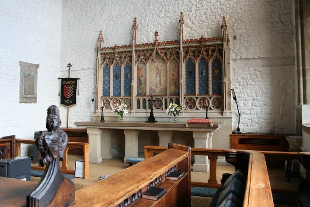 Browne's Hospital Chapel Altar & reredos in the small chapel of Browne's Hospital